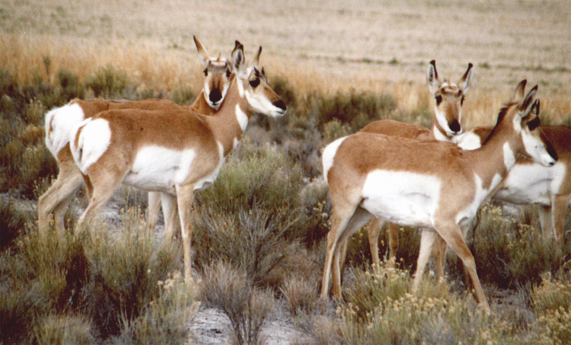 Antelope near Fort Rock in Northern Lake County, Oregon Antelope near Fort Rock in Northern Lake County, Oregon